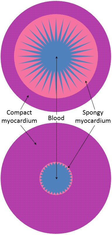 Myocardium in fish (top) and mammals (bottom), based on [1]